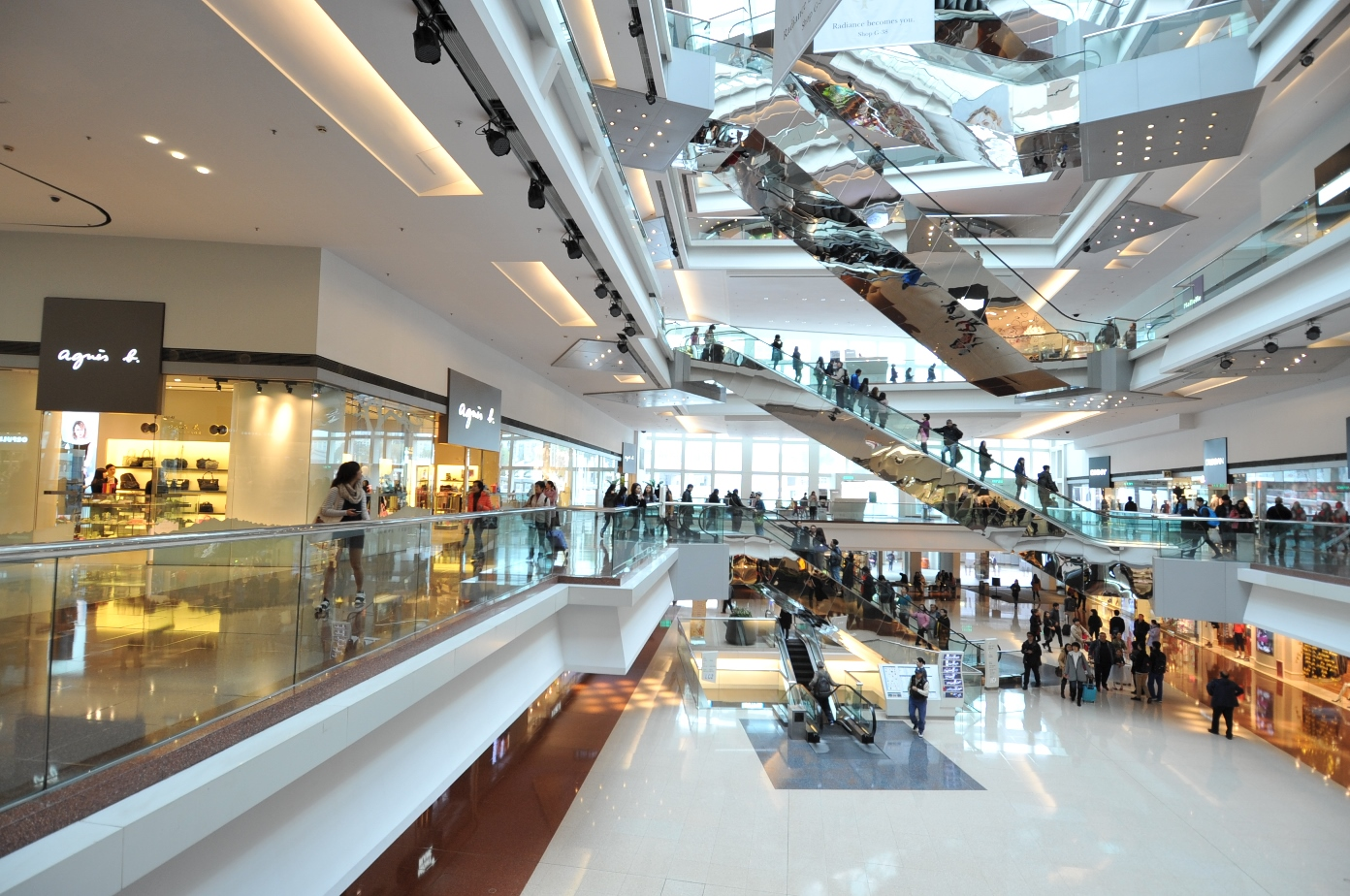 Author:WiNG@NTPHK Details:又一城縱橫交錯的電梯網絡